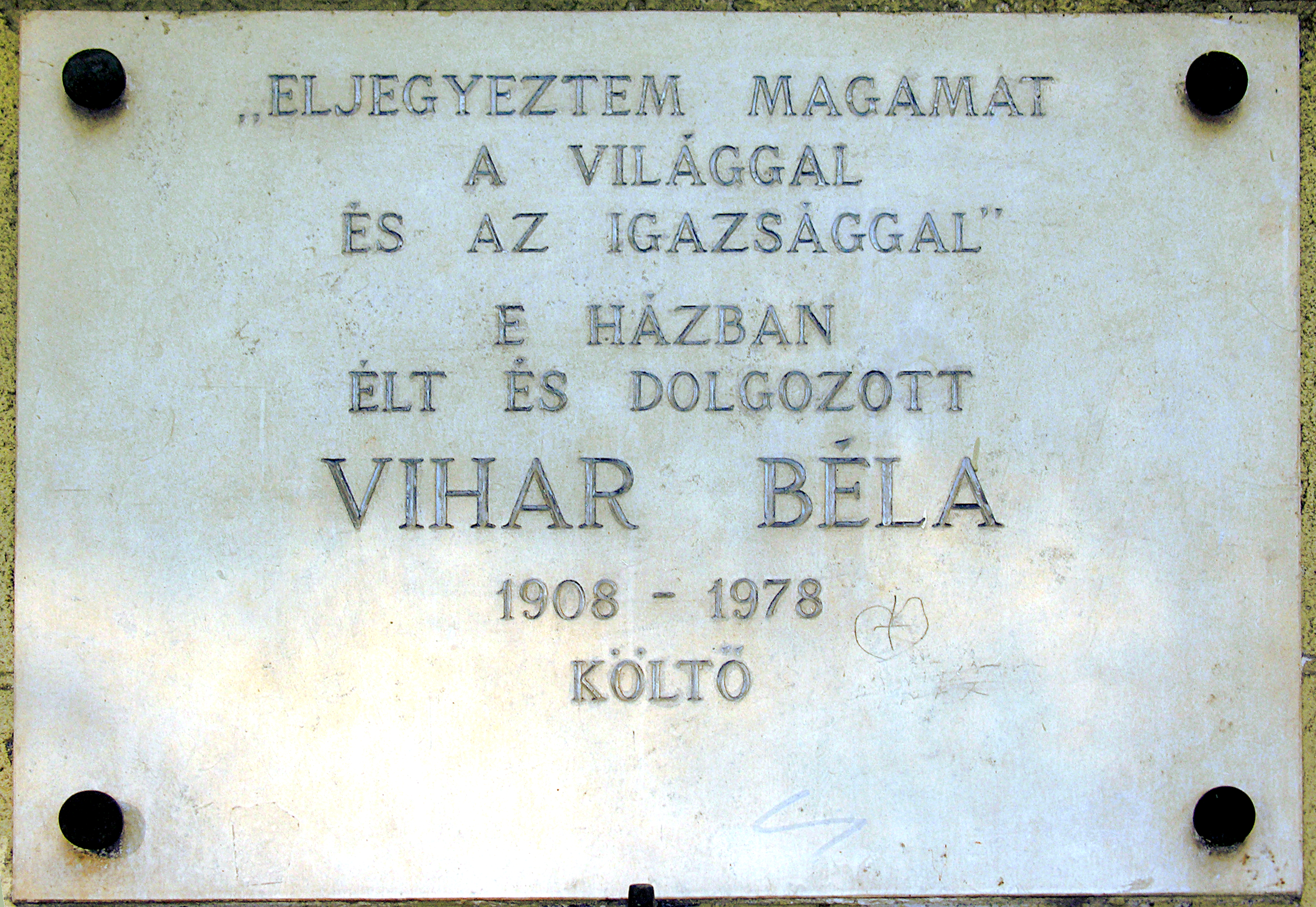 Commemorative plaque of Béla Vihar in Budapest District VII, Damjanich Street No 26/b